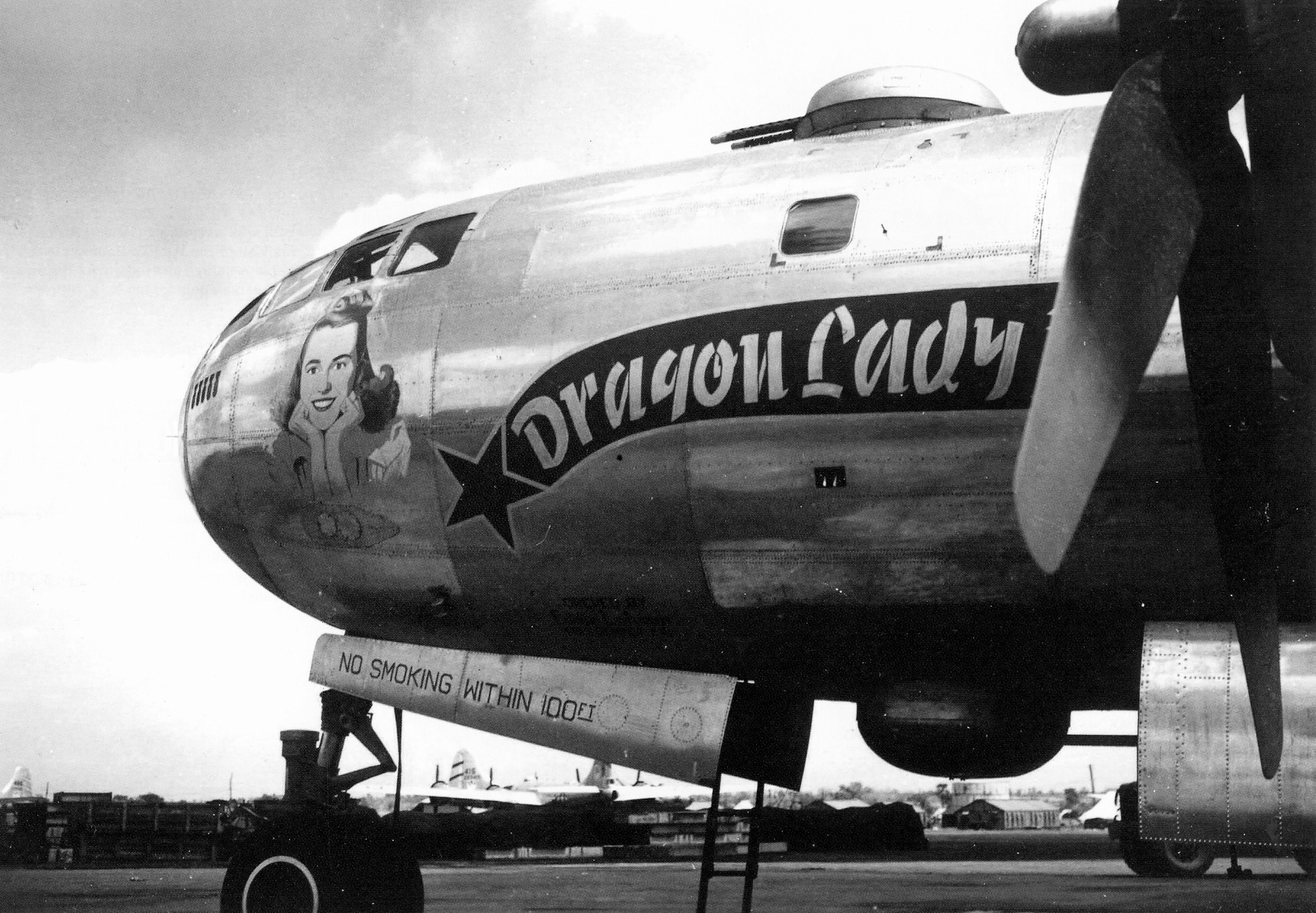 793d Bombardment Squadron Boeing B-29-55-BW Superfortress 44-69663 "Dragon Lady". Arrived in theater on 29 January 1945